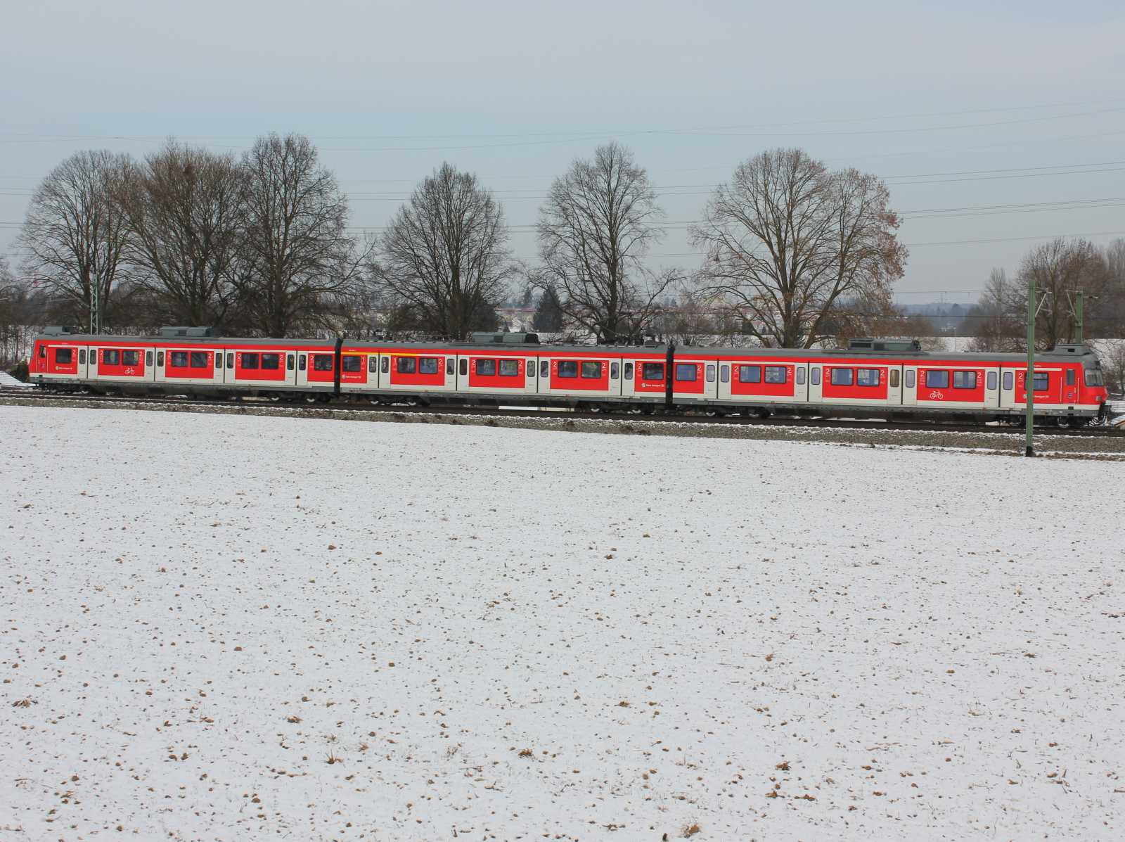 Class ET420Plus on regular service of the S60 S-Bahn Stuttgart on the railway track between Sindelfingen and Maichingen